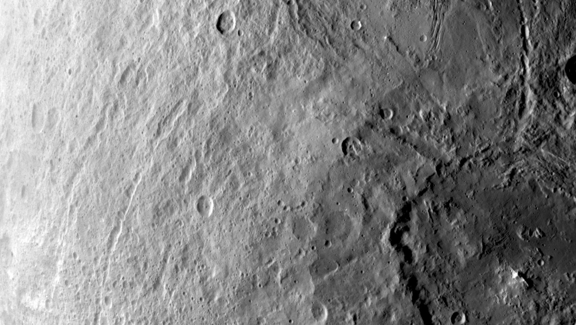 PIA19569: Ceres' Southern Hemisphere in Survey A large crater in the southern hemisphere of dwarf planet Ceres is seen in this image taken by NASA's Dawn spacecraft on June 6, 2015. This image shows many different surface structures associated with impacts. This is among the first snapshots from Dawn's second mapping orbit, which is 2,700 miles (4,400 kilometers) in altitude. The resolution is 1,400 feet (410 meters) per pixel. Dawn's mission is managed by JPL for NASA's Science Mission Directorate in Washington. Dawn is a project of the directorate's Discovery Program, managed by NASA's Marshall Space Flight Center in Huntsville, Alabama. The University of California, Los Angeles, is responsible for overall Dawn mission science. Orbital ATK, Inc., in Dulles, Virginia, designed and built the spacecraft. The German Aerospace Center, the Max Planck Institute for Solar System Research, the Italian Space Agency and the Italian National Astrophysical Institute are international partners on the mission team. For a complete list of acknowledgments, For more information about the Dawn mission, visit